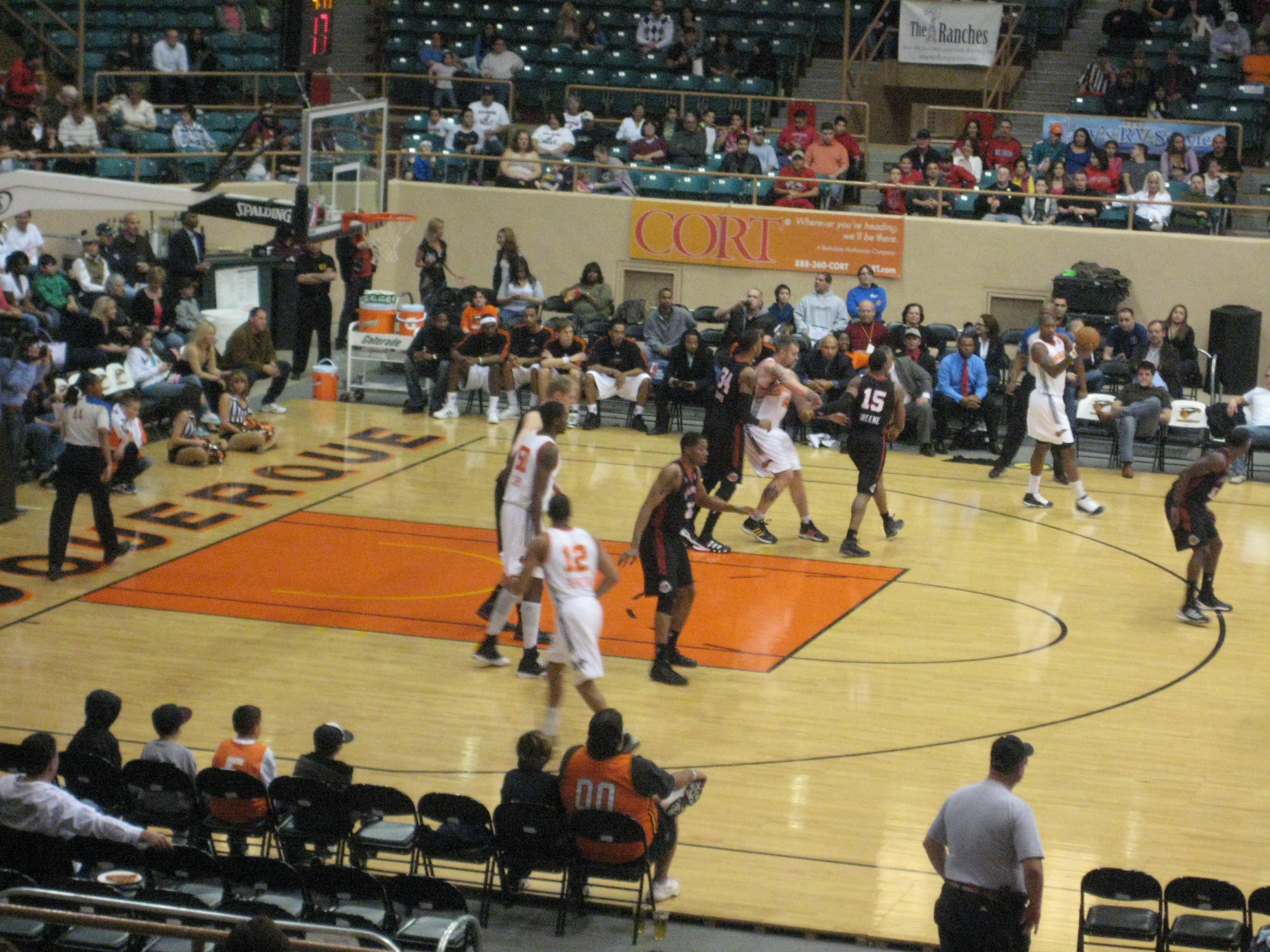 The Albuquerque Thunderbirds playing a game at the Tingley Coliseum